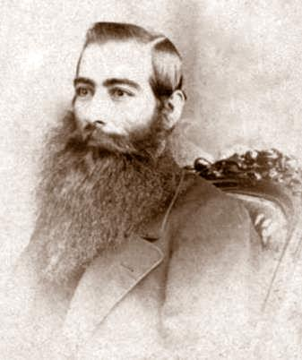 Plácido Vega y Daza (1830-1878), Mexican general who worked to acquire weapons and funds in San Francisco for the republican government of Mexico against the French invasion.